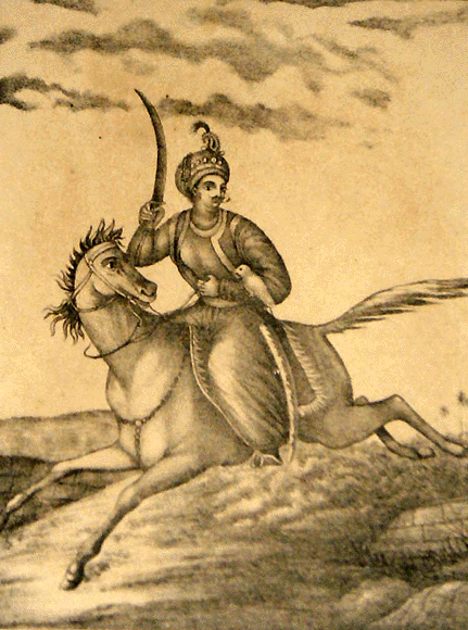 The following illustrations are from the book entitled "The Ten Principal Avataras of the Hindus: A Short History of Each Incarnation and Directions for the Representations of the Murtis as Tableaux Vivants" by Sourindo Mohun Tagore, published in 1880 in Calcutta.